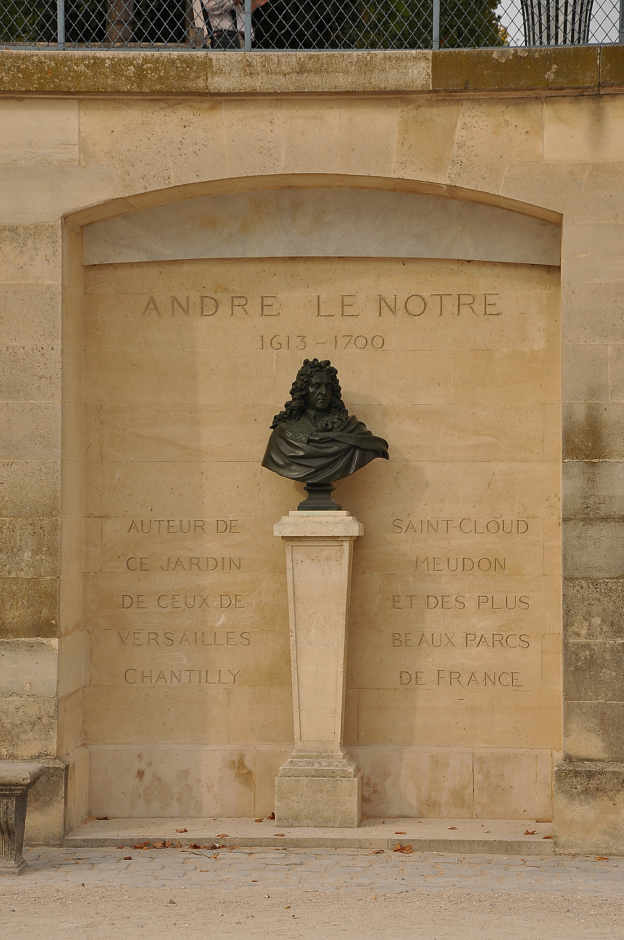 Bust of André Le Nôtre in the Jardins de Tuileries in Paris 1st district France work of Antoine Coysevox (1640-1720).